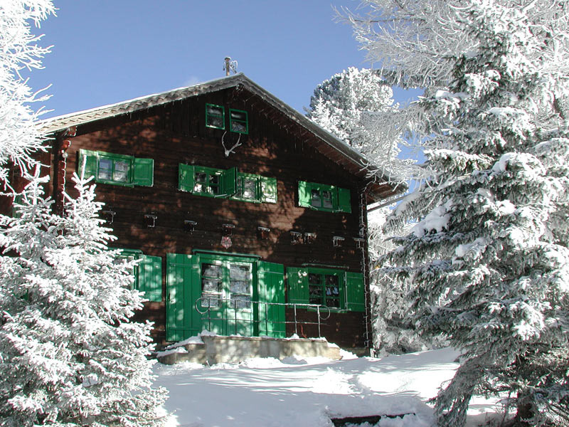 First leisure residence on Turracher Höhe Pass / Carinthia / Austria / EU.